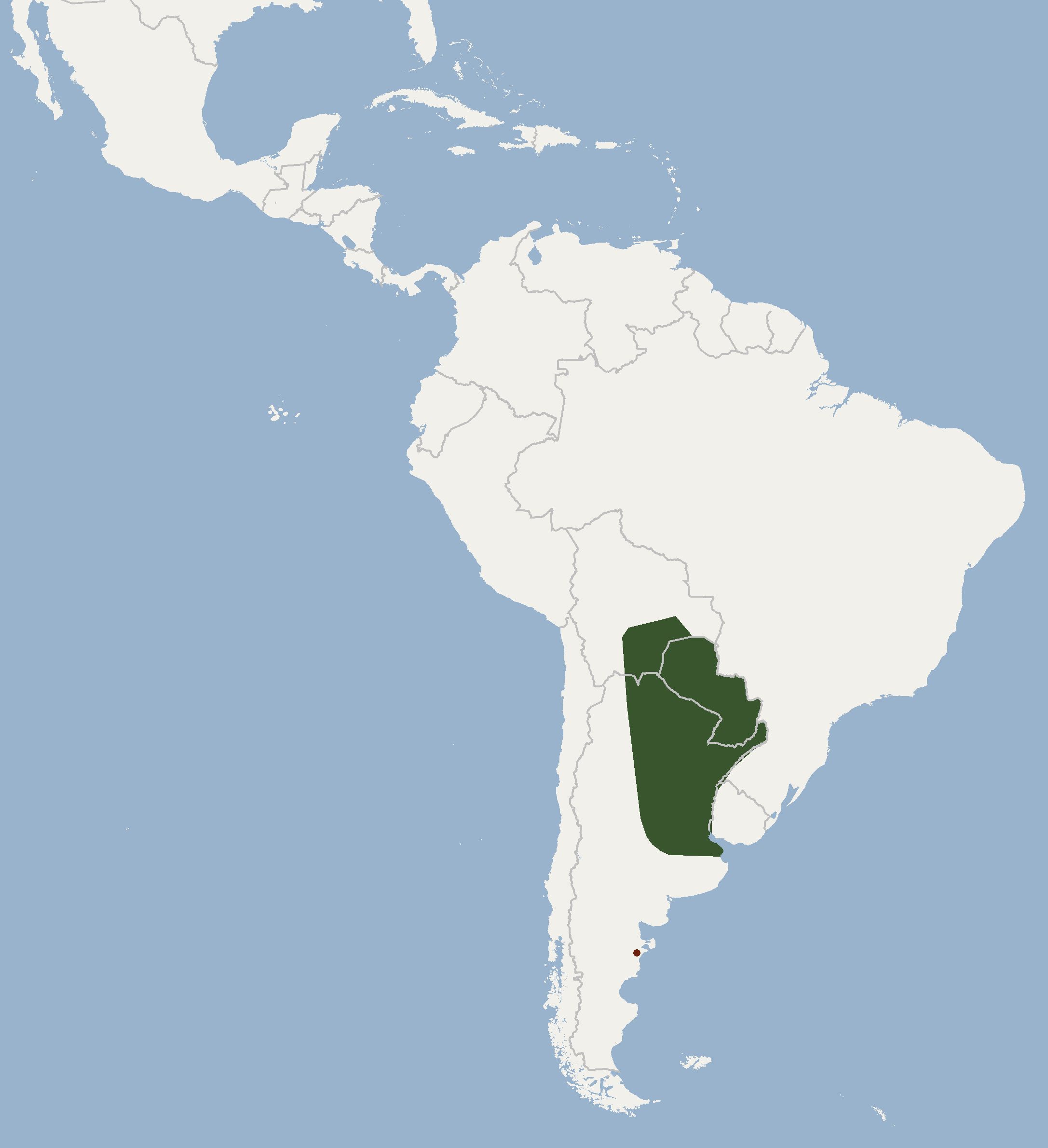 According to Eger JL, 1977